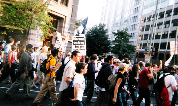 Picture of anti-Iraq-sanctions and anti-Iraq-invasion marchers. 2002 or 2003, Washington, DC.